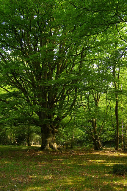 Beeches on the edge of Blackthorn Copse, New Forest Beyond this pollarded beech tree is the southern edge of Blackthorn Copse.